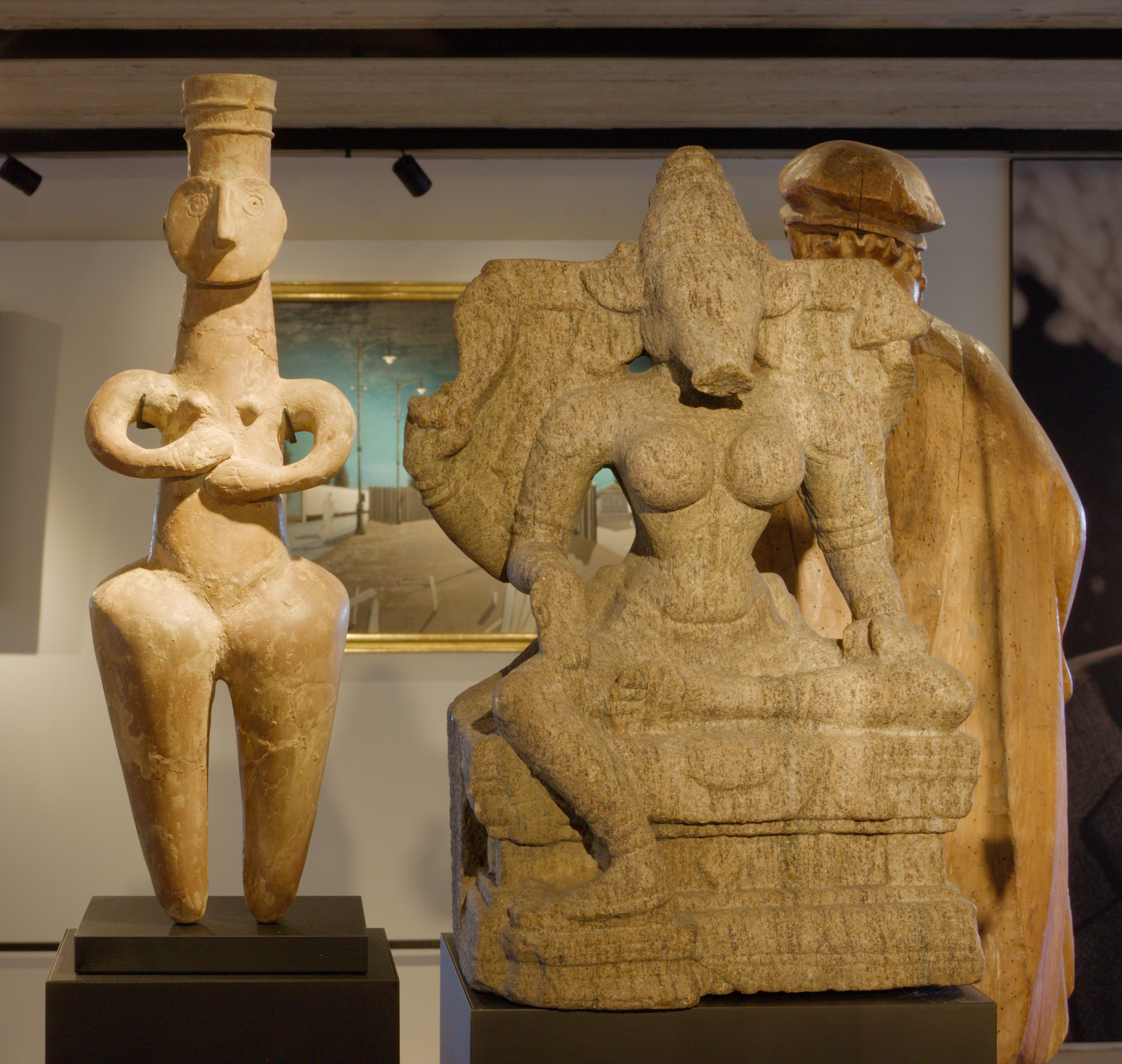 Left: Feminine idol, ancient Iran, Likely from Kaluraz or Amlash, 9 to 7 century BC, terracottaRight: Varahi, South India, Vijayanagara dynasty, 1st half of the 15th century, granite "flammé"Musée L This image is part of the Natural Image Noise Dataset